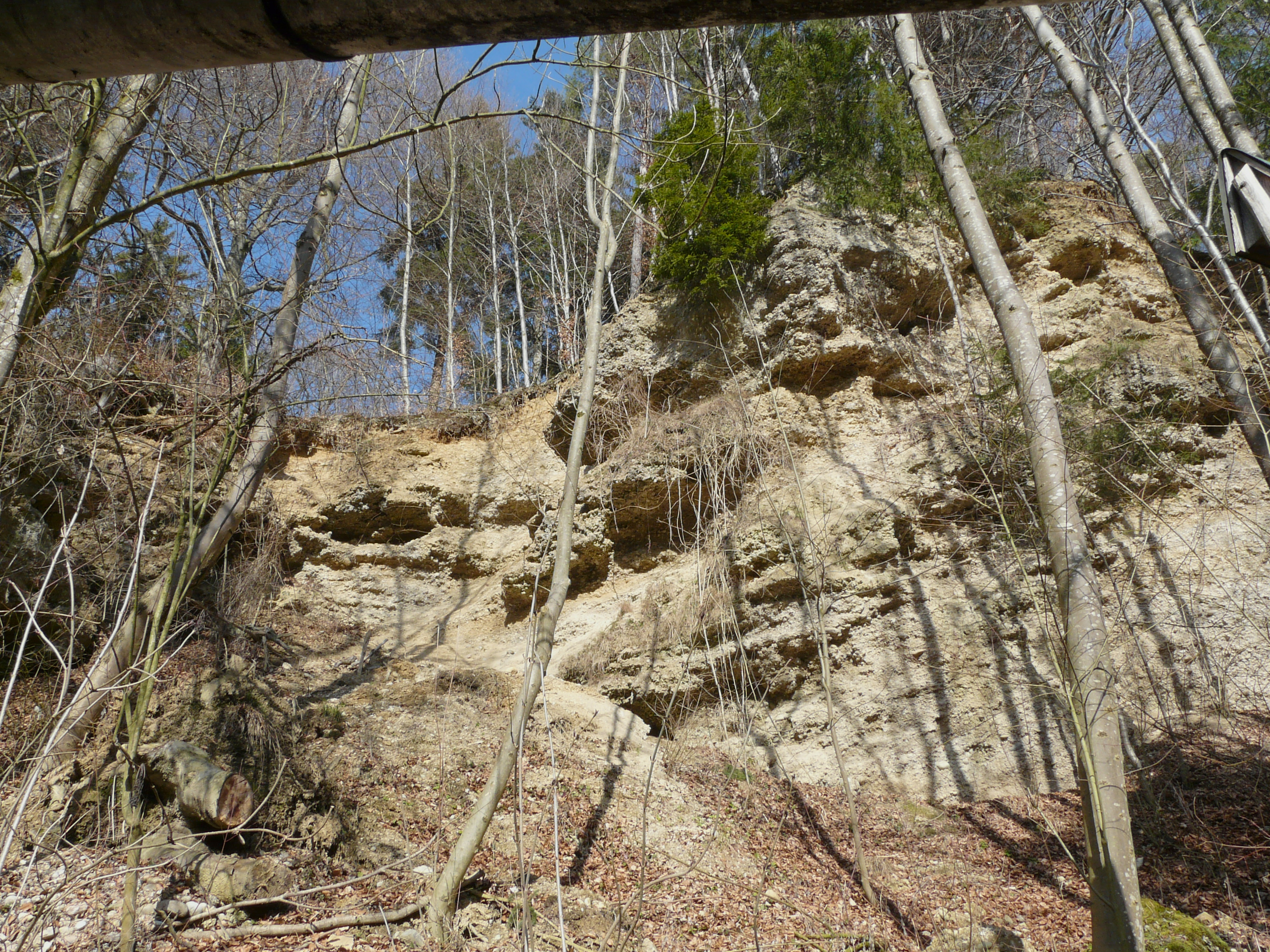 geotope, conglomerate, older-pleistocene, Geotop Nummer: 189A001